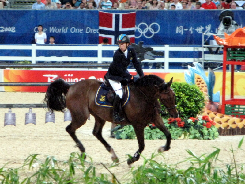 2008 Olympic Games equestrian in Sha Tin